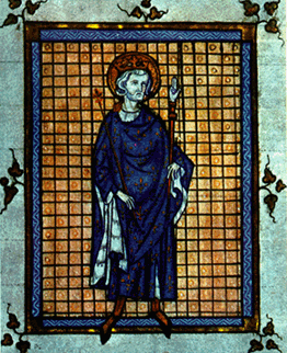 Louis IX of France